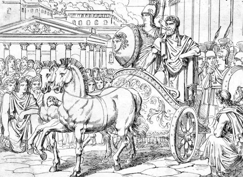 Return of Peisistratus to Athens with the false Minerva